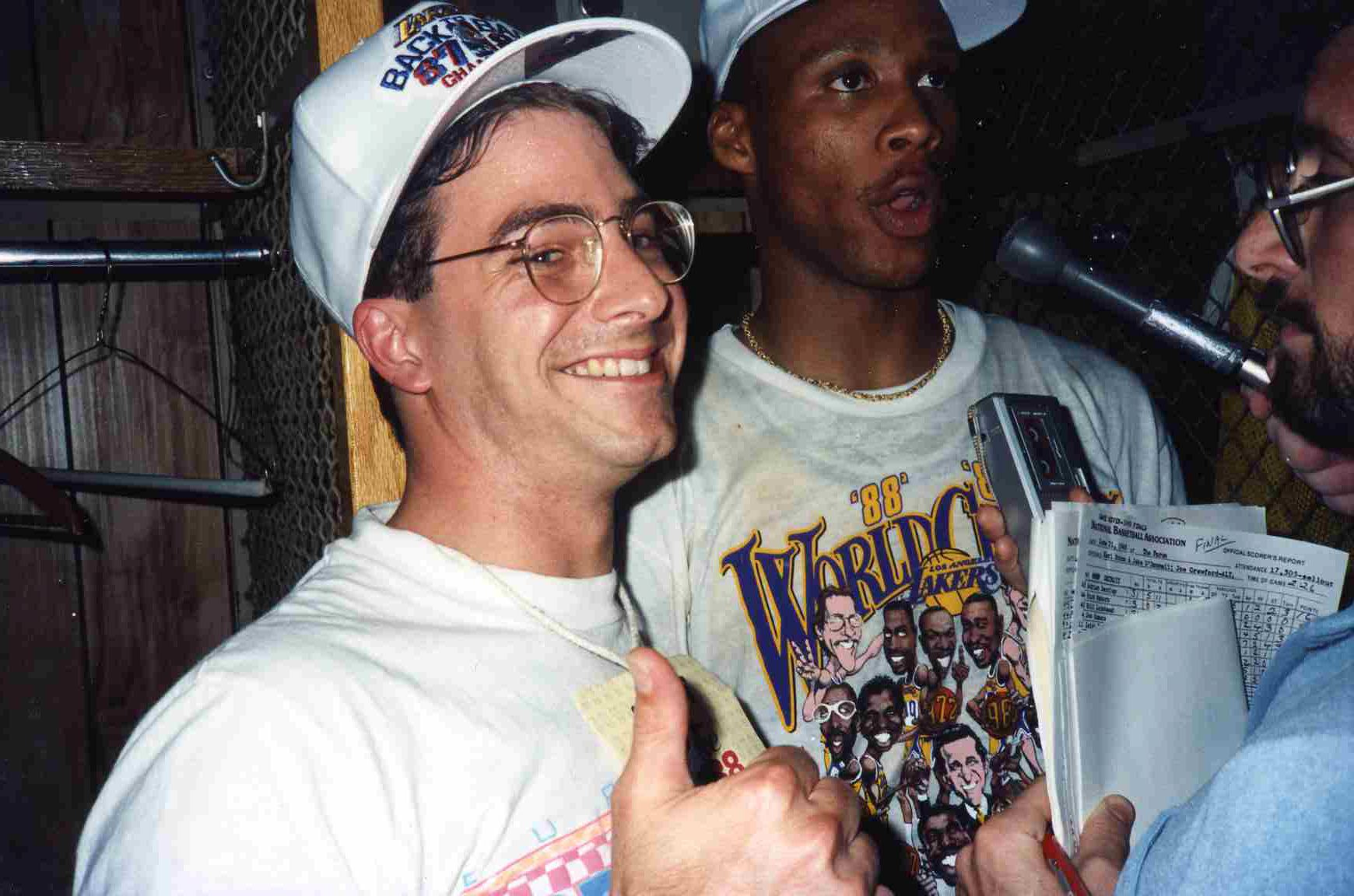 Los Angeles Lakers player Byron Scott (in the middle) speaks with the media after winning the 1988 NBA Finals.